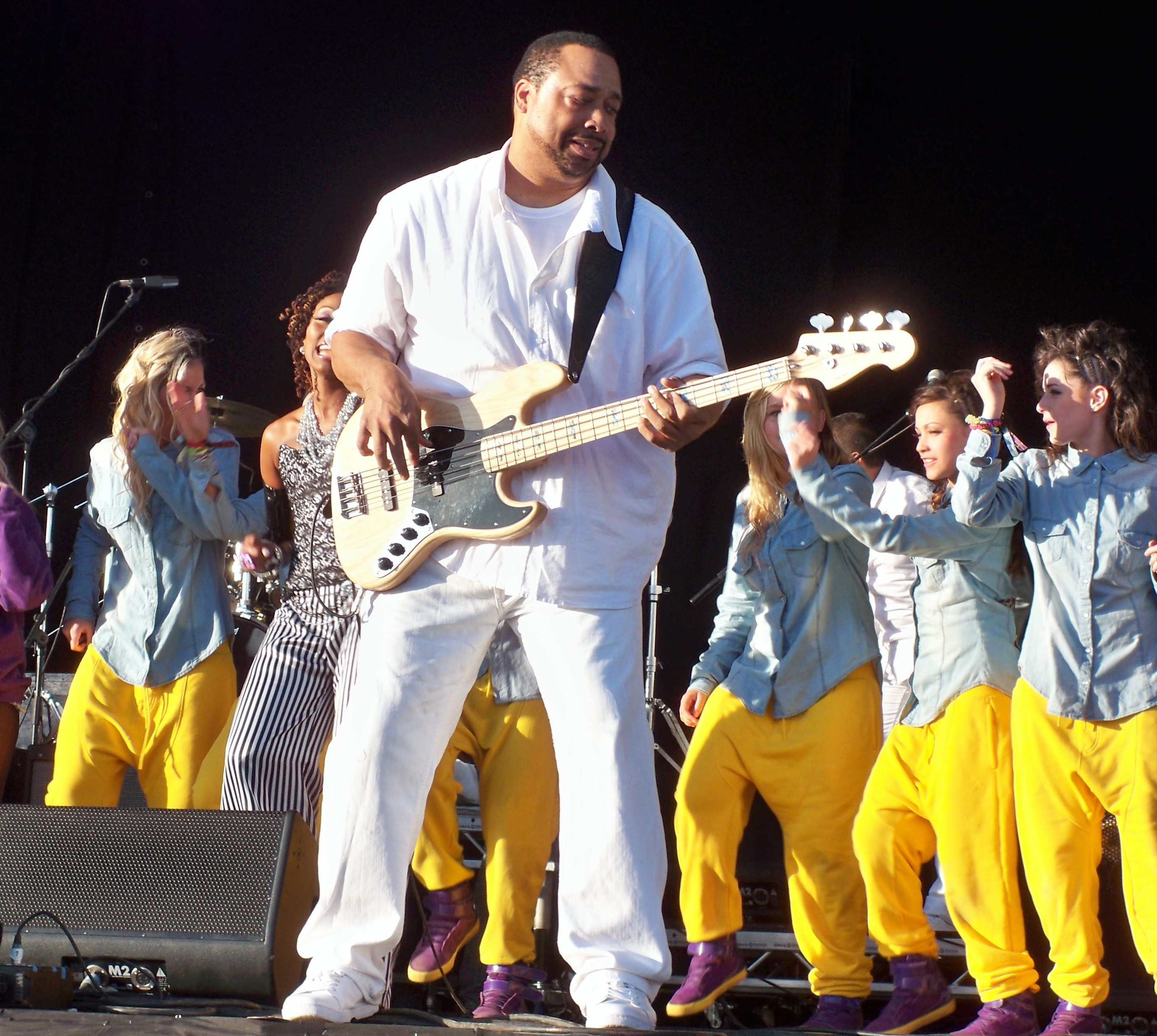 Bass player Jerry Barnes, performing at Guilfest 2012.